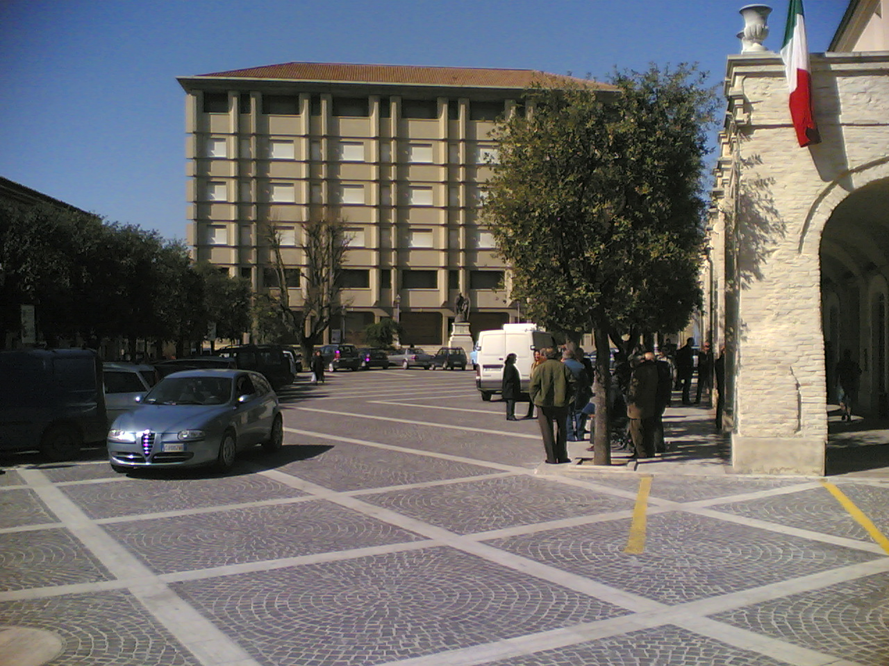 Piazza Bucchianico, own work